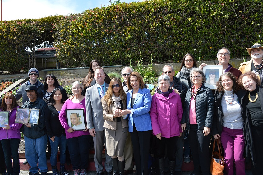 Congresswoman Pelosi joins families who lost loved ones at the Golden Gate Bridge who turned their grief into action, as they marked the beginning of construction of a suicide barrier that will save countless lives.